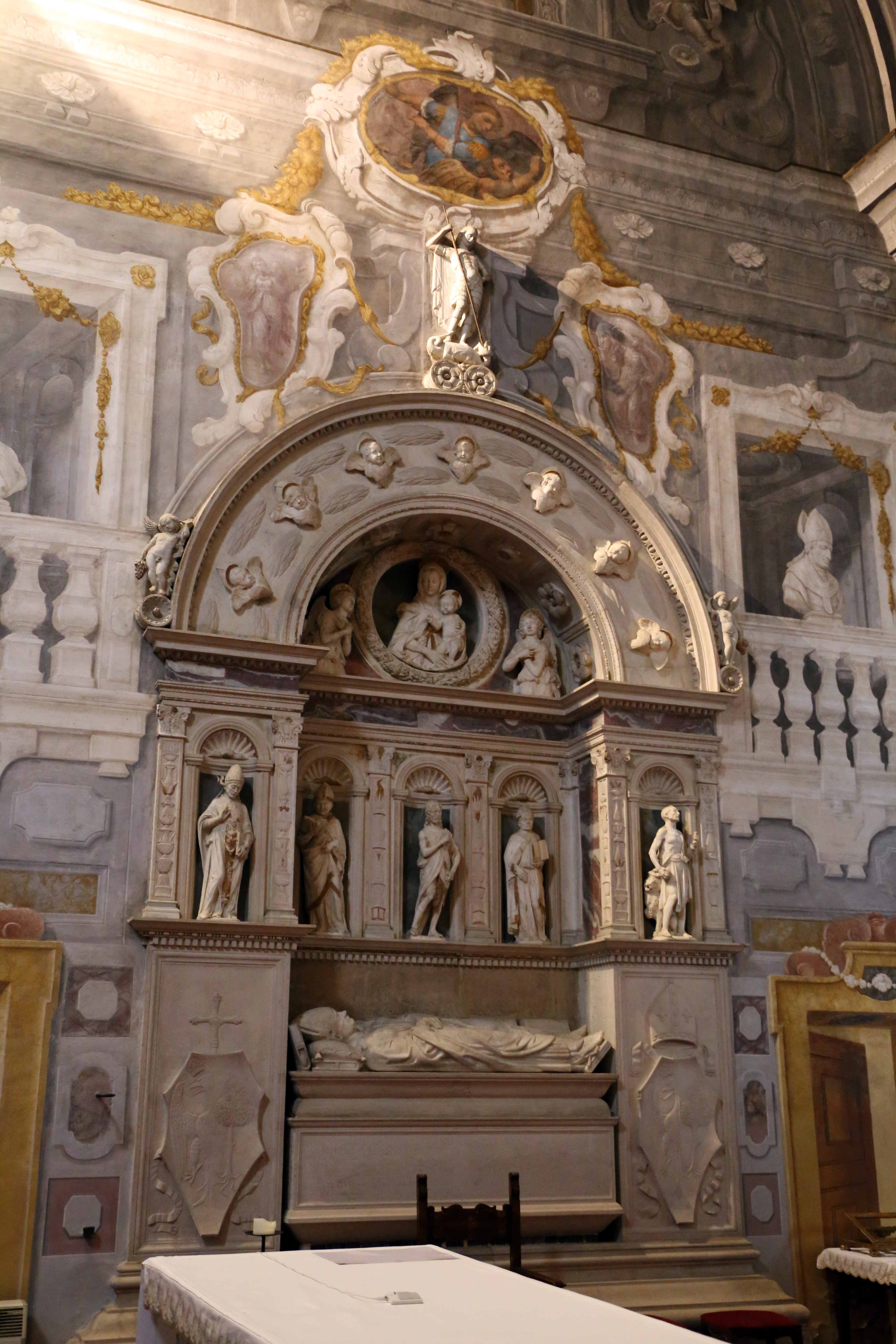 San Giorgio fuori le Mura (Ferrara)